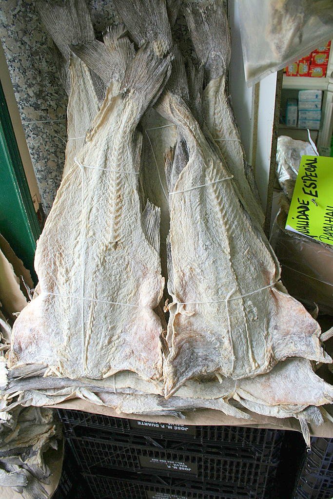 salted codfish in "Casa Oriental", Porto, Portugal.